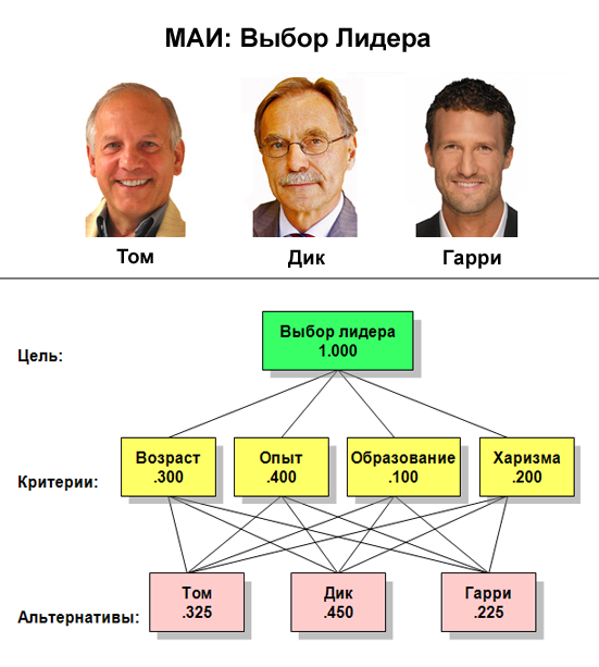 Original drawing used to illustrate the Analytic Hierarchy Process article. I release this image to the public domain . Photos are public domain images from Wikimedia Commons: Bonaventura_Bottone_Portrait.jpg, Tomas_Bertelman.jpg, and Boris_Ehrgott_officielle.jpg